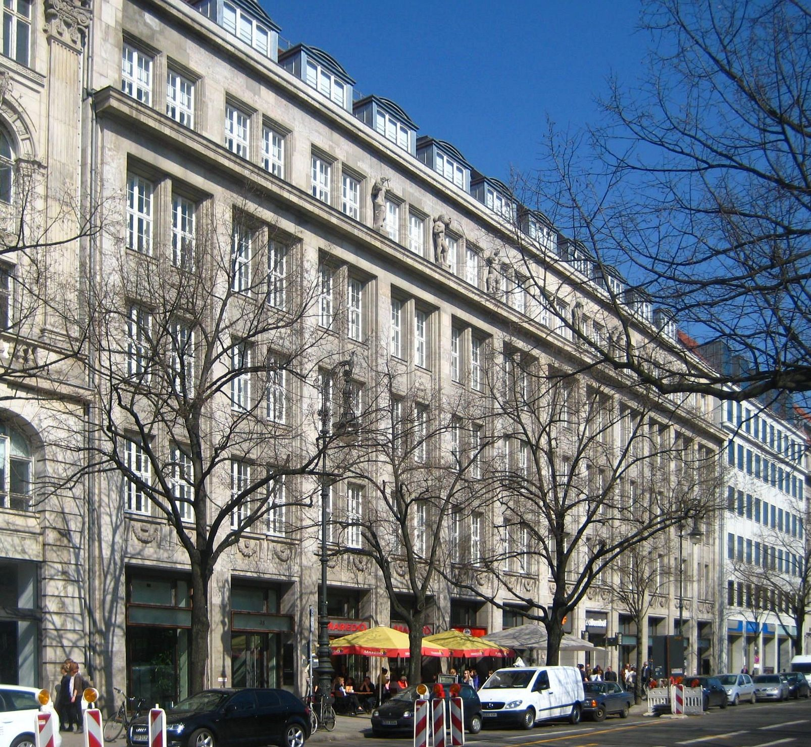 The Zollernhof, Unter den Linden 36/38, in Berlin-Mitte. The building was constructed from 1910 to 1911 to a design by the architects Kurt Berndt and Bruno Paul. The building today houses the Berlin studio of ZDF (Channel 2 of German TV). It has been designated as a historic landmark.